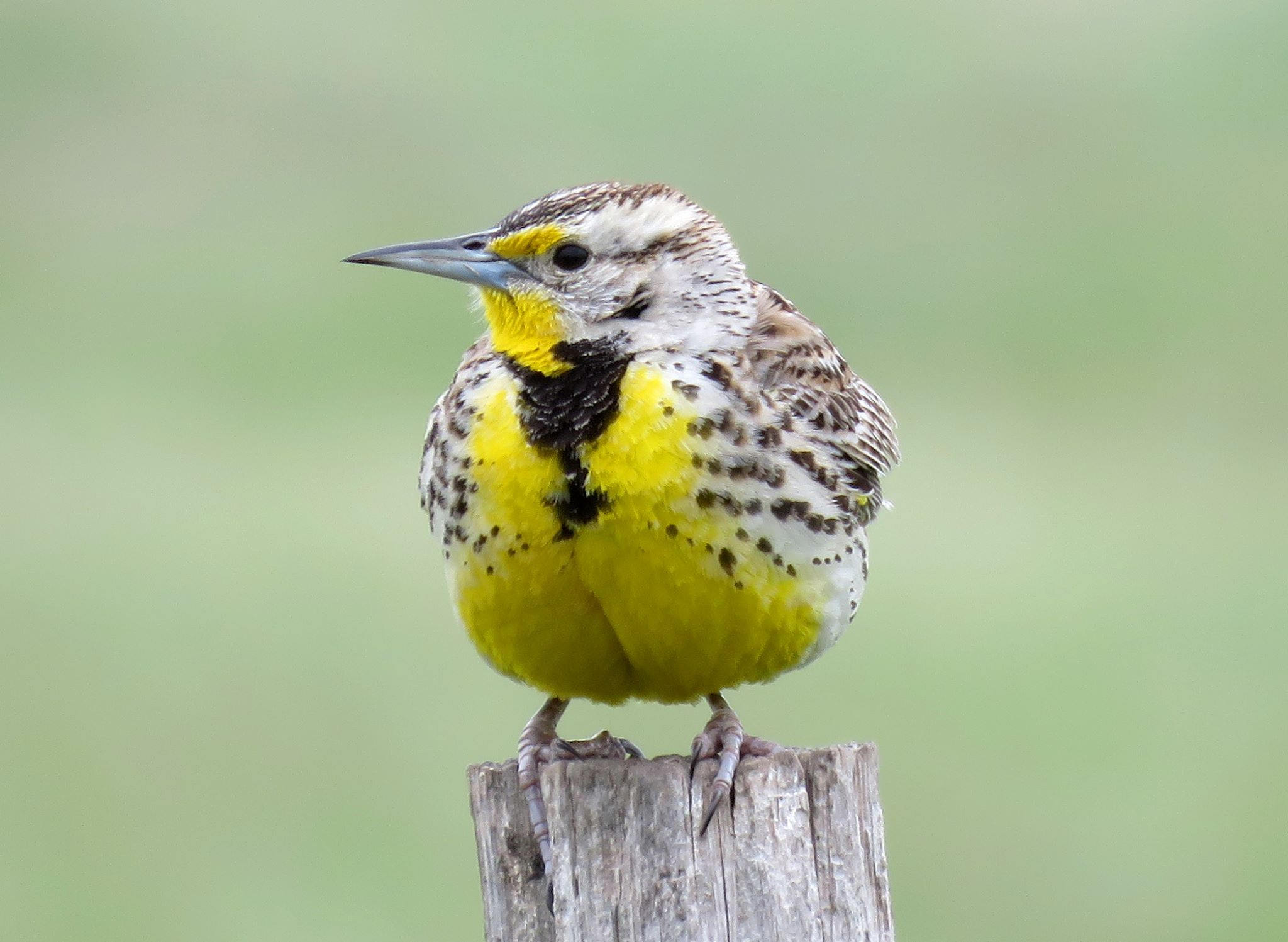 This Western meadowlark (Sturnella neglecta) was spotted at Morris Wetland Management District in Minnesota. Watch for them in open grasslands, prairies, meadows, and some agricultural fields. Photo by Alex Galt/USFWS.